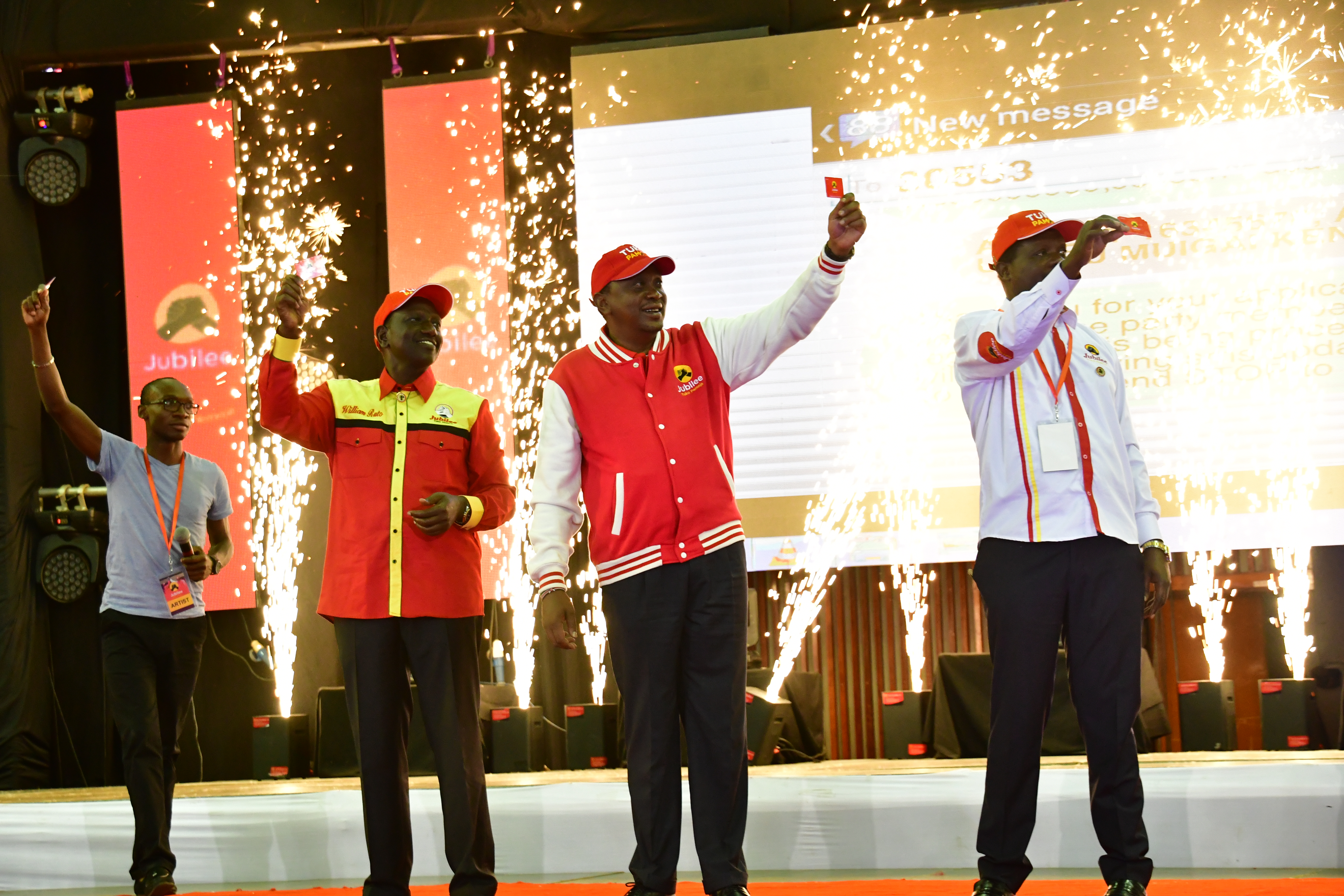 Jubilee Party Officials holding up the smartcard